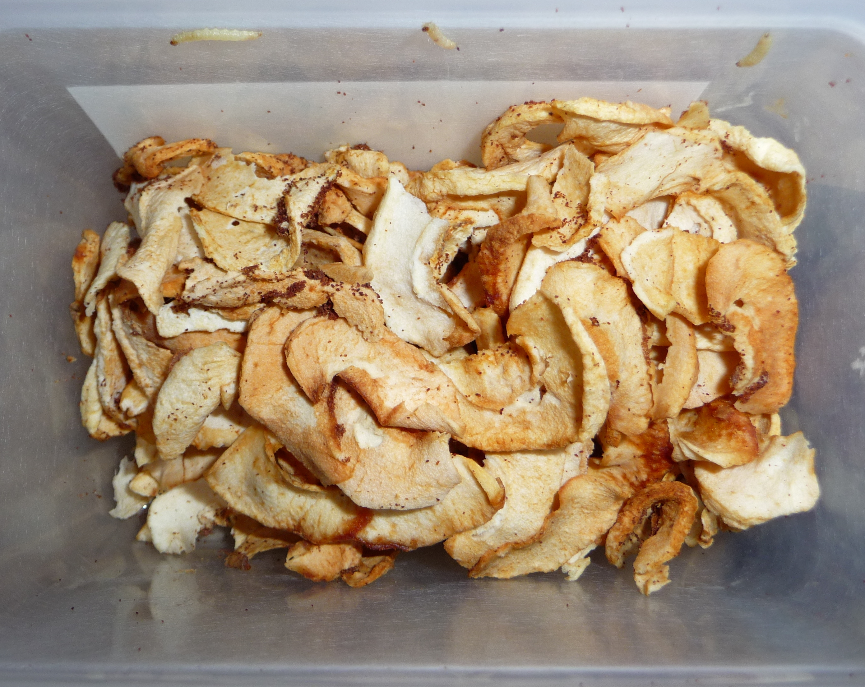 Dried apple slices with caterpillar